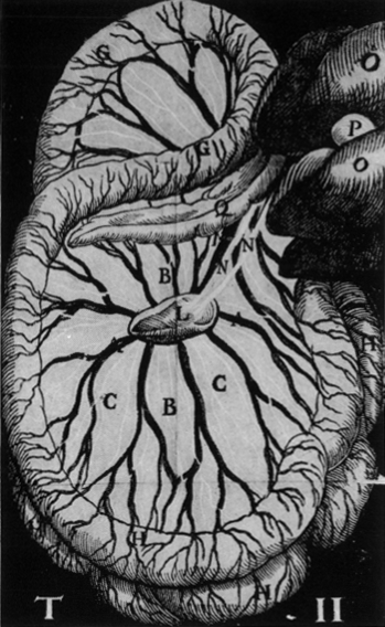 Lacteals of a dog